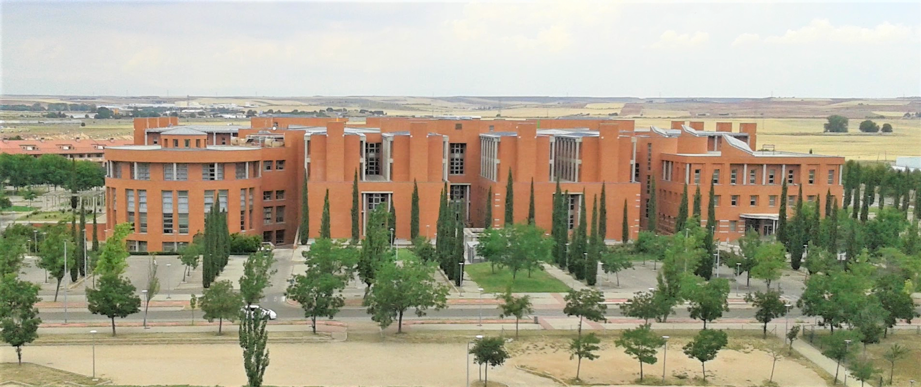 View of Politechnic School in Alcalá de Henares (Community of Madrid - Spain).